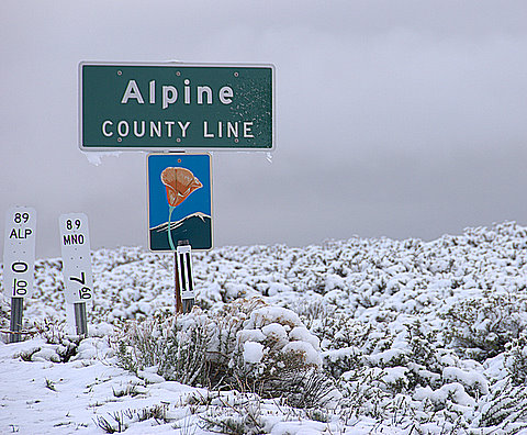 Alpine County sign on California State Route 89, northern California. Picture was taken by Constantine Kulikovsky during a snowstorm 26 May 2008.